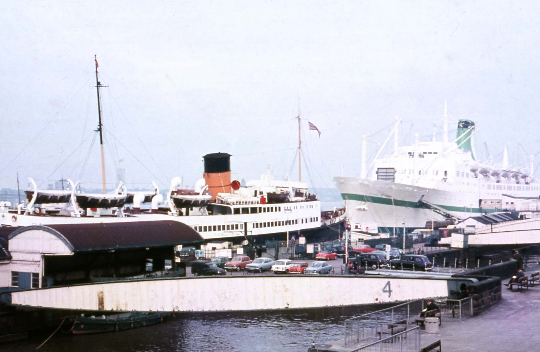 1971 view from Princes Landing Stage, Liverpool with Manxman.